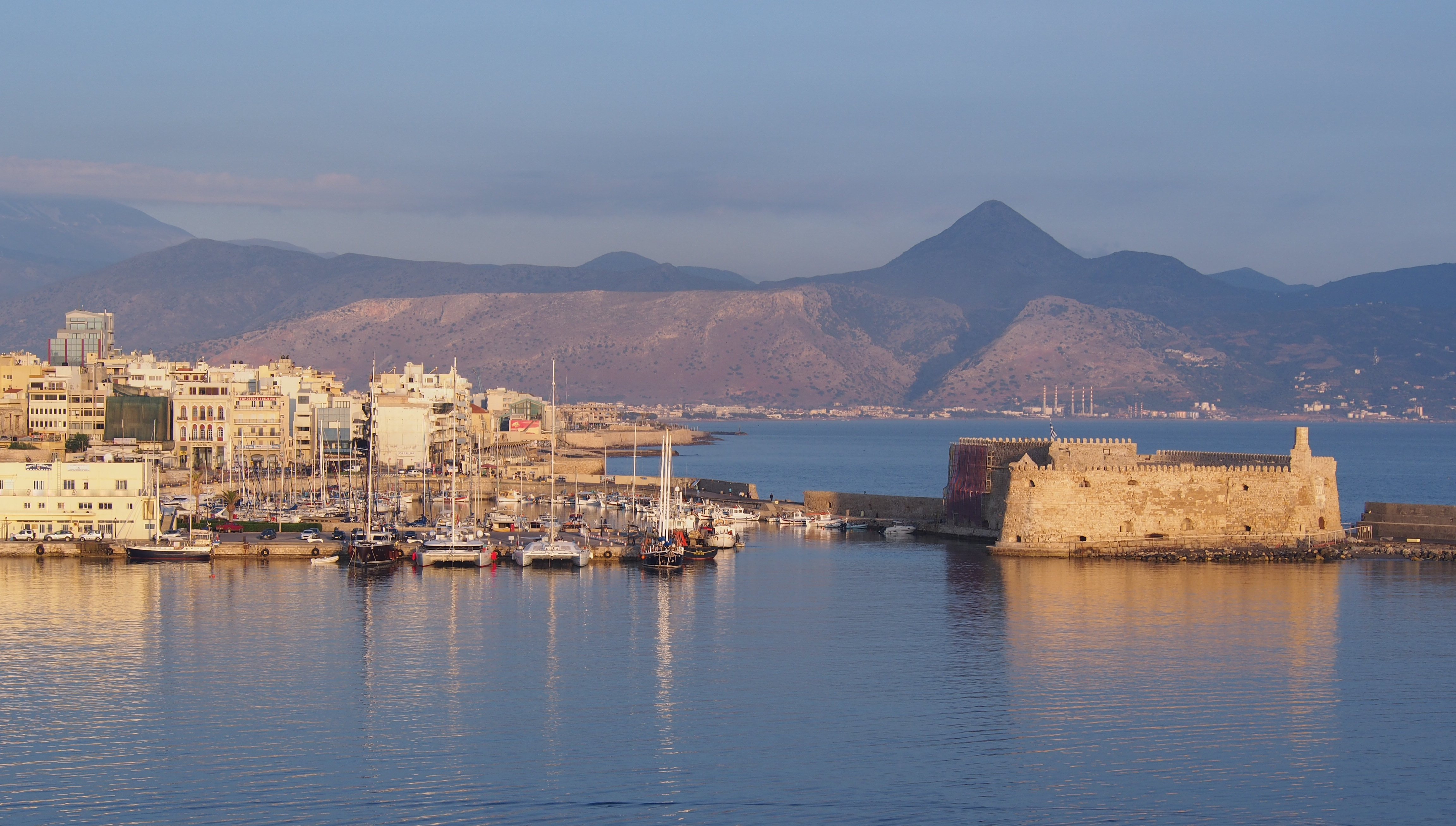 View of the old harbour of Heraklion, guarded by Koules fort, from east. Mt. Stroumboulas can be seen in the distance.